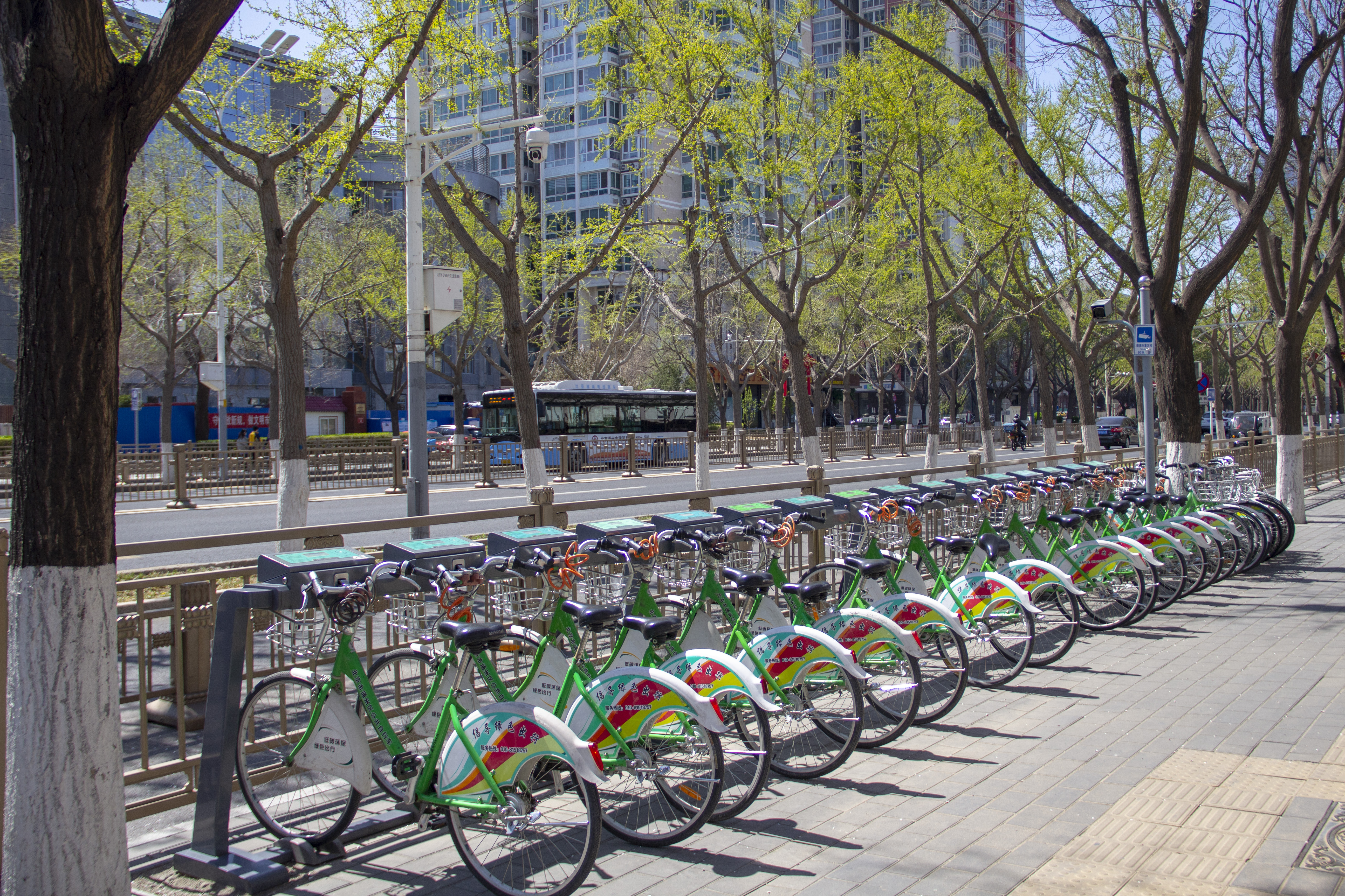 Tongzhou Public Bike